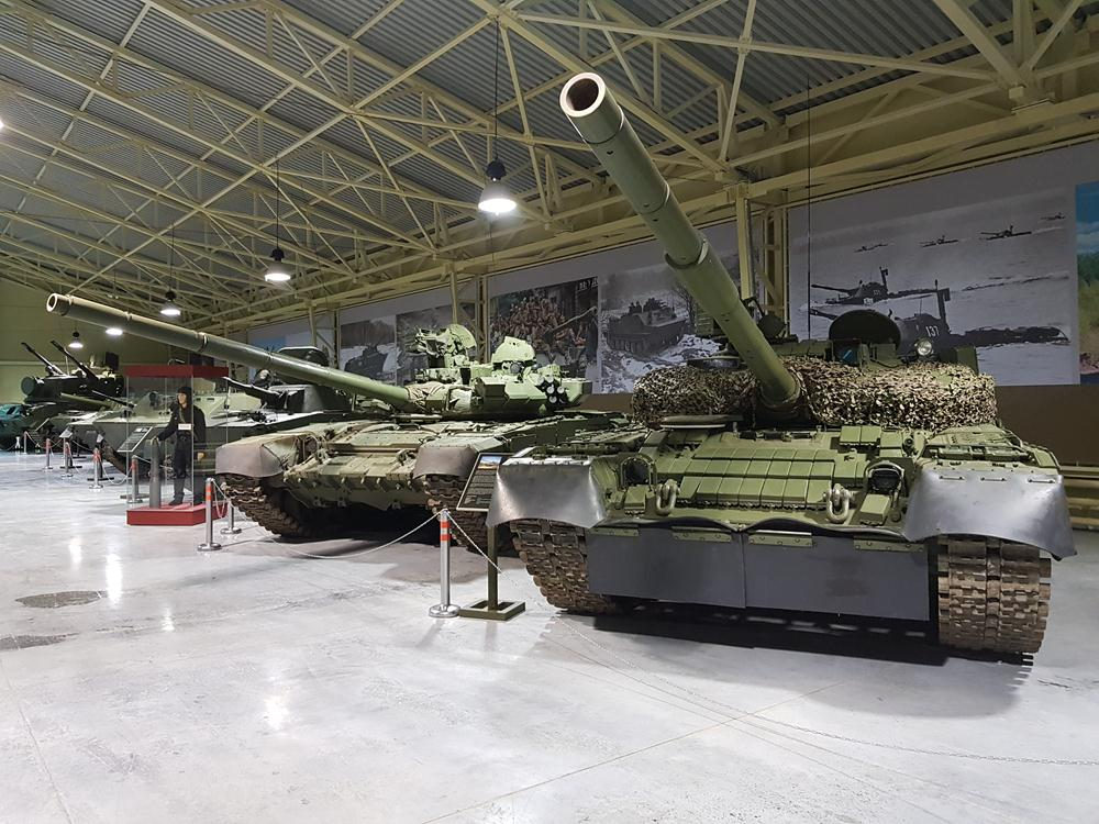 T-80 (right) and T-90 (left) tanks